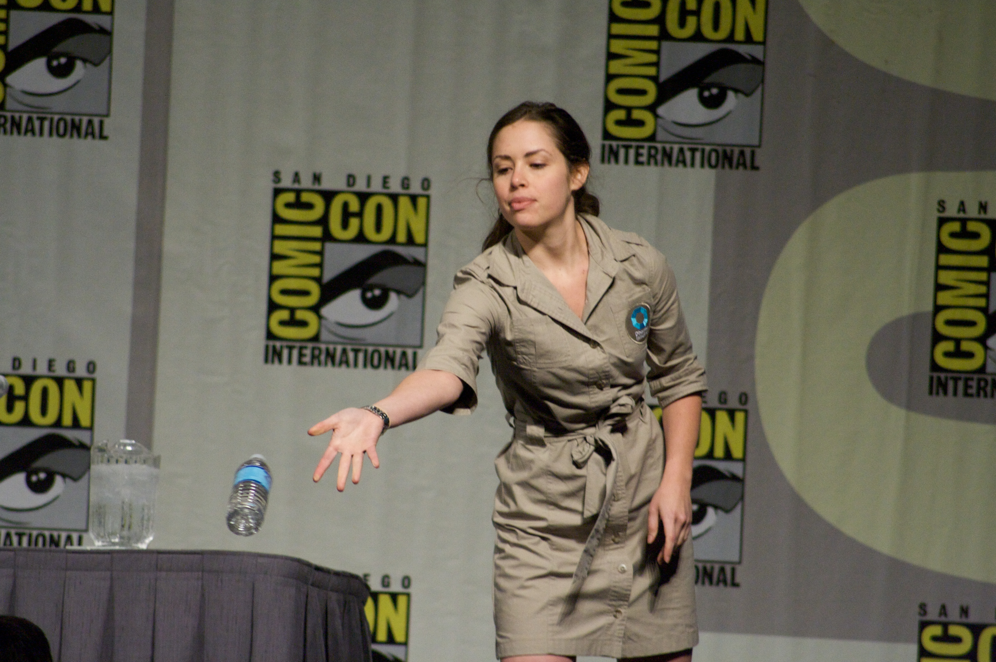 This member of the Dharma Initiative was helping Carlton and Damon by distributing free swag to the people who asked a question. They had brought a box with them (the white box with a Dharma logo in earlier photos) In it was a pile of nice swag for anyone who asked a question. The niceness of the gift was in proportion to the niceness of the question asked. This person got an Oceanic water bottle.